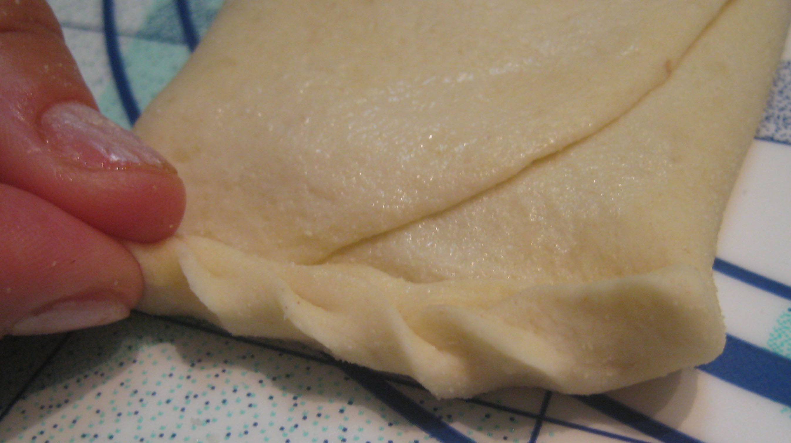 Typical Sicilian food